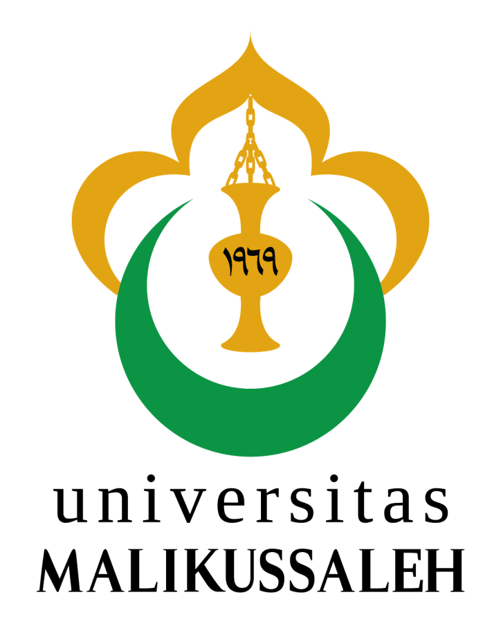 This is a logo owned by Malikussaleh University for Malikussaleh University.